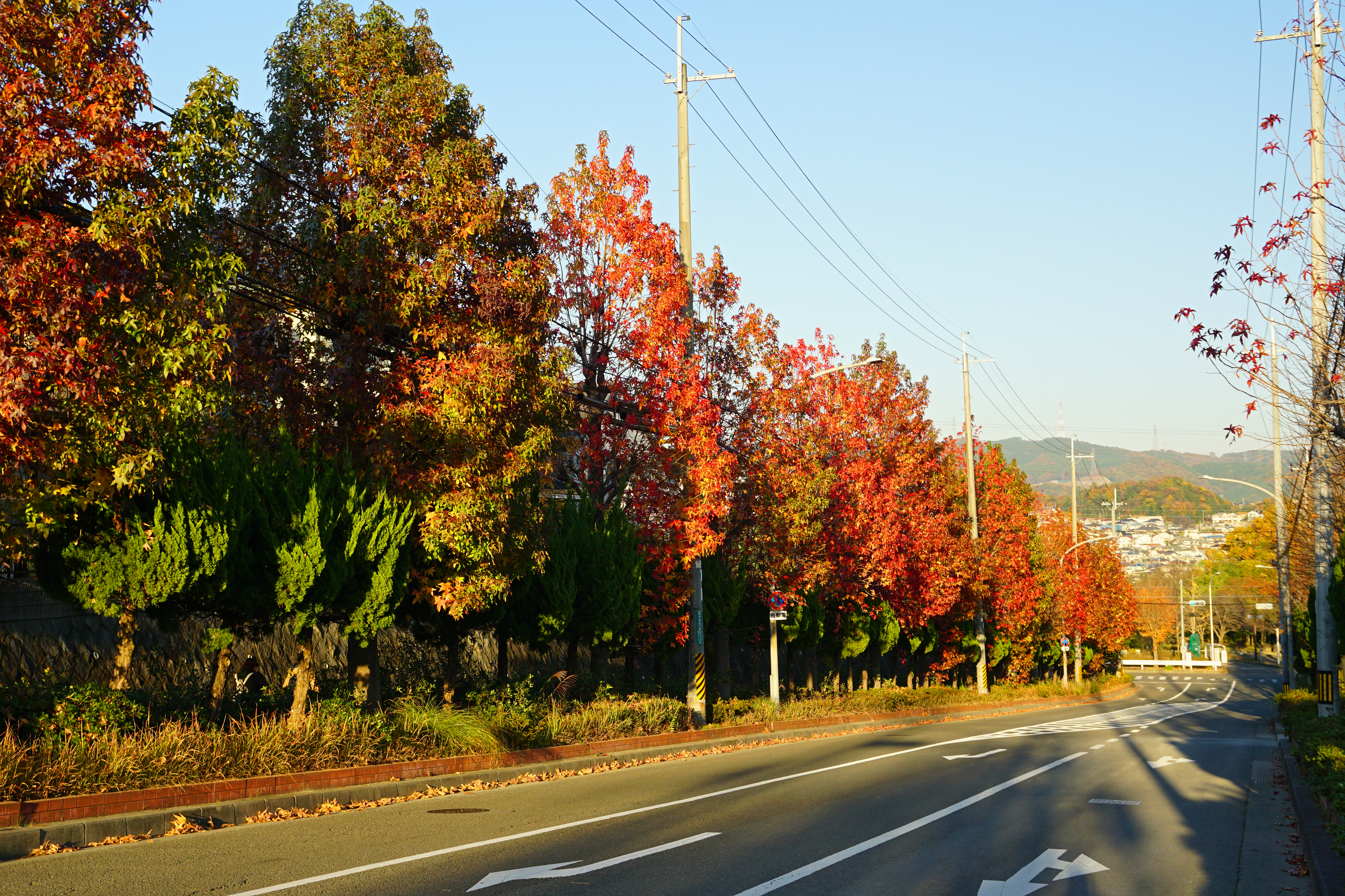 At Nanpeidai 5-chome, Takatsuki, Osaka prefecture, Japan.